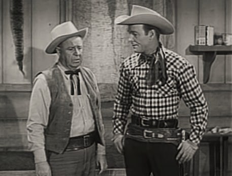 Harry Harvey (left) & Roy Rogers in the TV-series The Roy Rogers Show, episode Strangers (cropped screenshot)